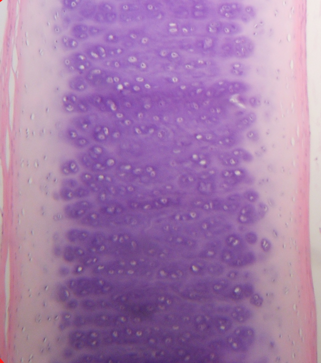 Trachea ostrich